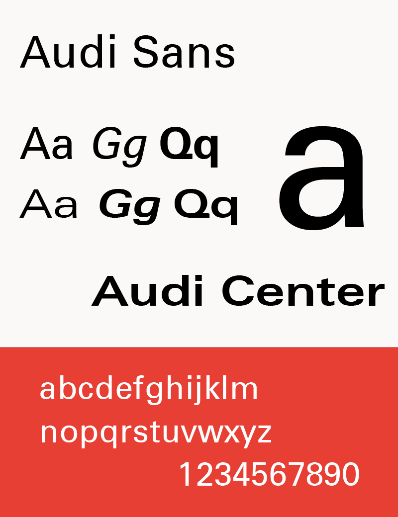 Sample of Audi Sans (typeface)